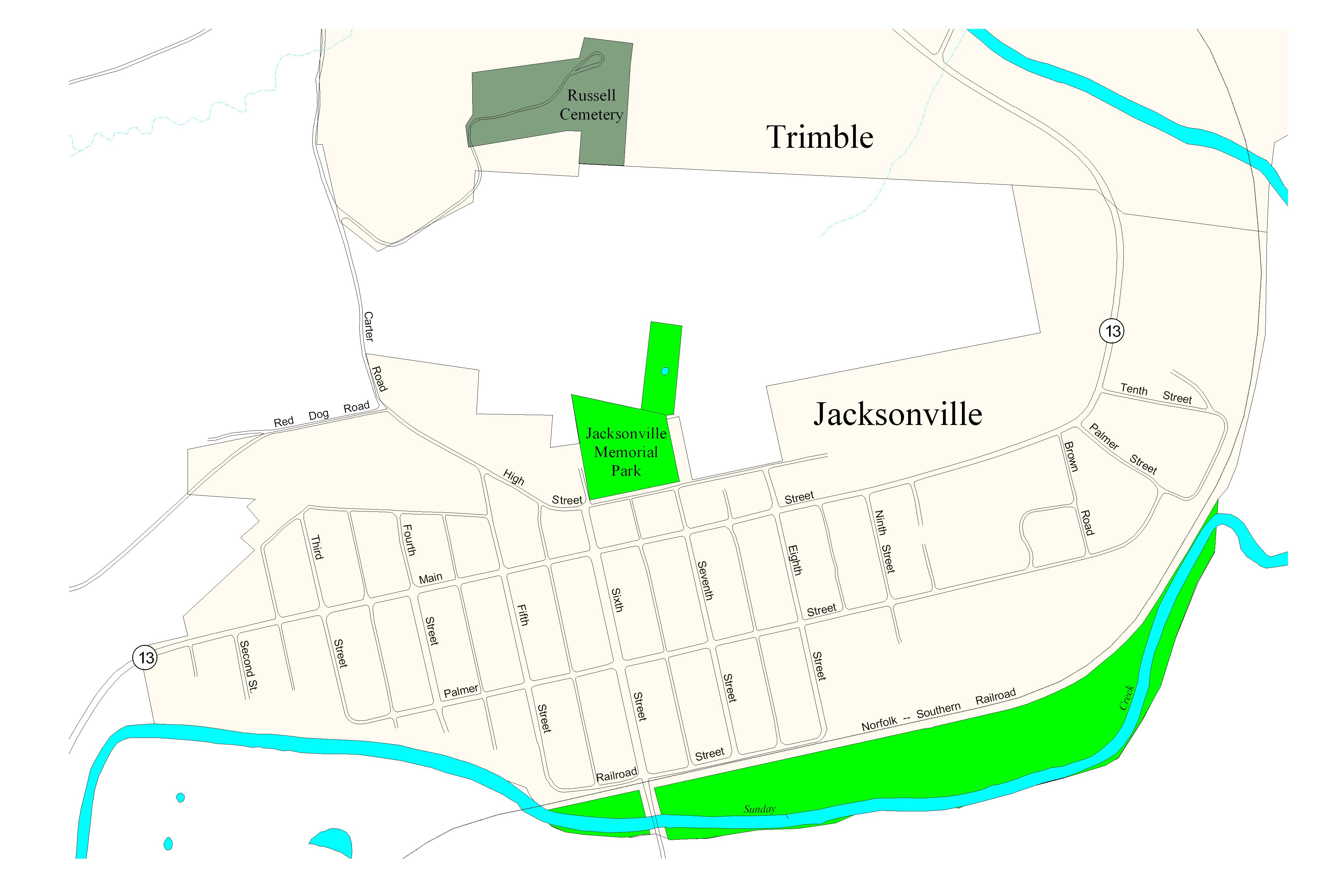 Political map of Jacksonville, an incorporated village in Trimble Township, Athens County, Ohio; map created with ArcView GIS 3.3.